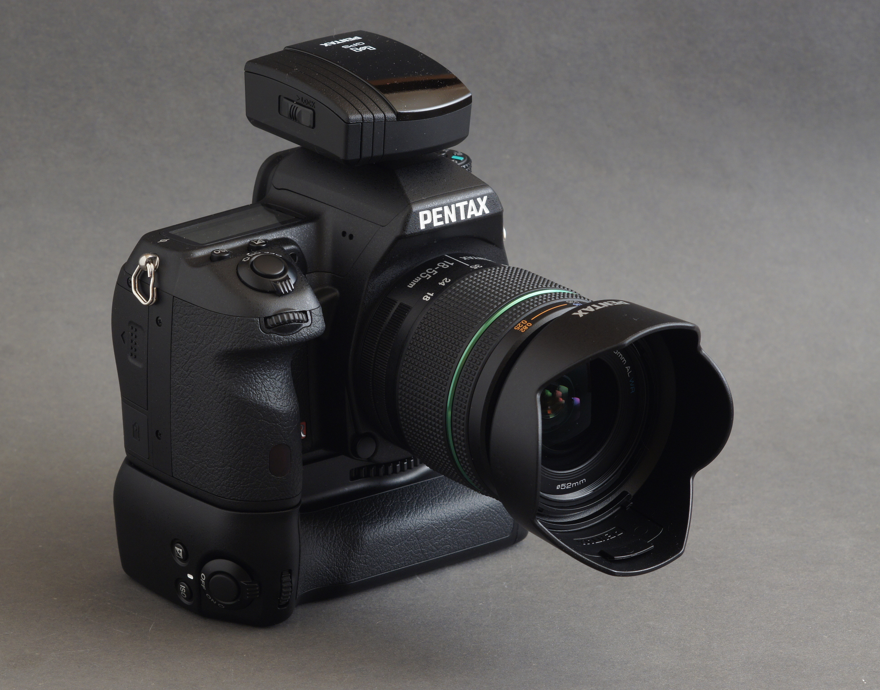 Pentax K-5 II, DA 3.5-5.6/18-55 WR, battery grip D BG-4, GPS module O-GPS1. Taken with Minolta Macro Rokkor MC 3.5/100mm